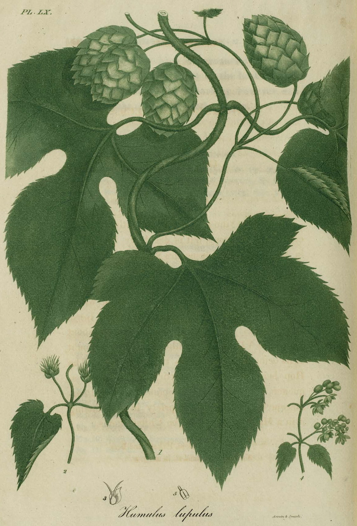 Plate illustration from: Jacob Bigelow. American medical botany: being a collection of the native medicinal plants of the United States. Boston: Cummings and Hilliard, 1817-1820. 3 volumes.